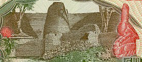 Great Zimbabwe as featured on the defunct $50 note. नेपाली: Great Zimbabwe as featured on the defunct $50 note. සිංහල: Great Zimbabwe as featured on the defunct $50 note.